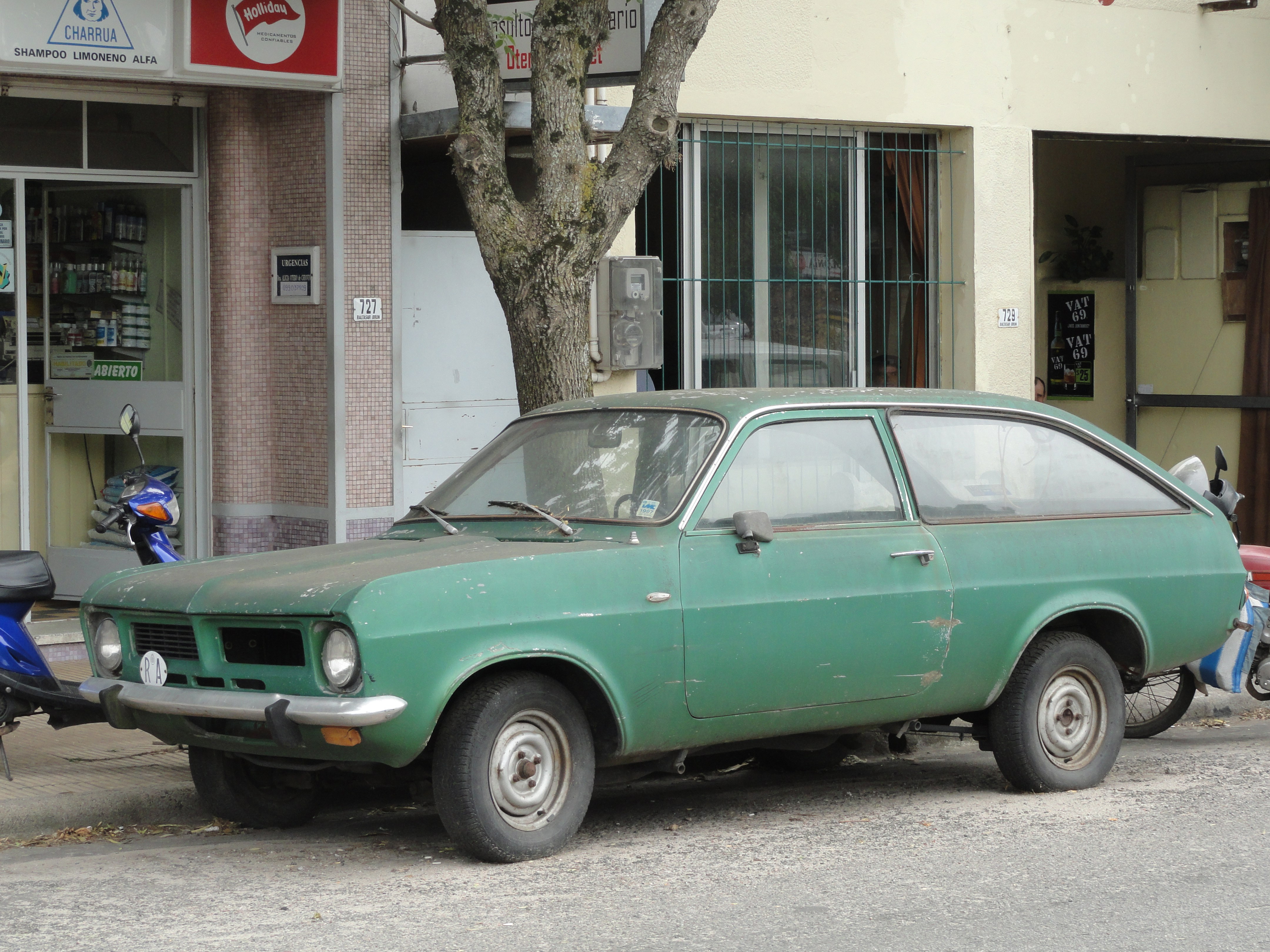 Indiana, the uruguayan version of Vauxhall Viva HC, with fiberglass body.